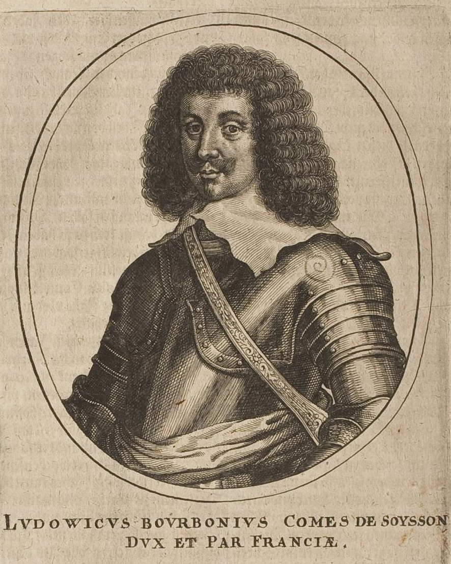 Portrait of Louis de Bourbon, count of Soissons (1604-1641